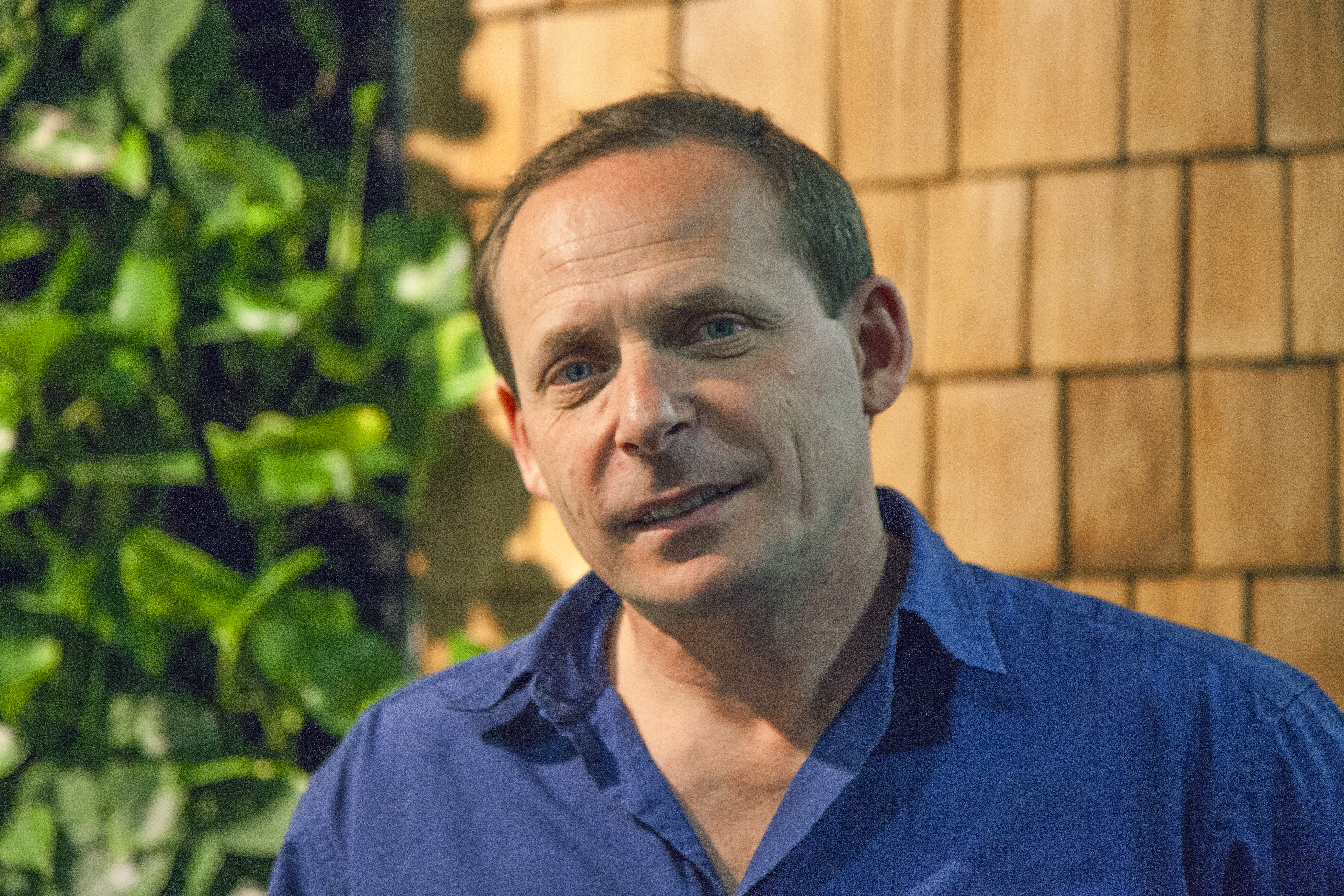 Arkadii Volozh in his office, Yandex Moscow headquarter (July 2015)